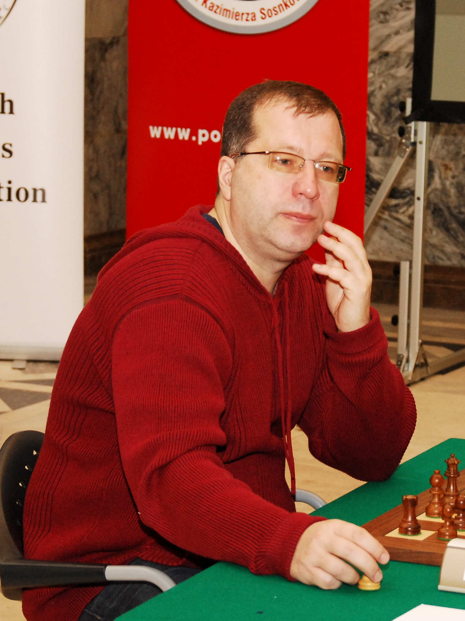 GM Alexey Dreev, European Rapid Chess Championship, Warsaw 2012.